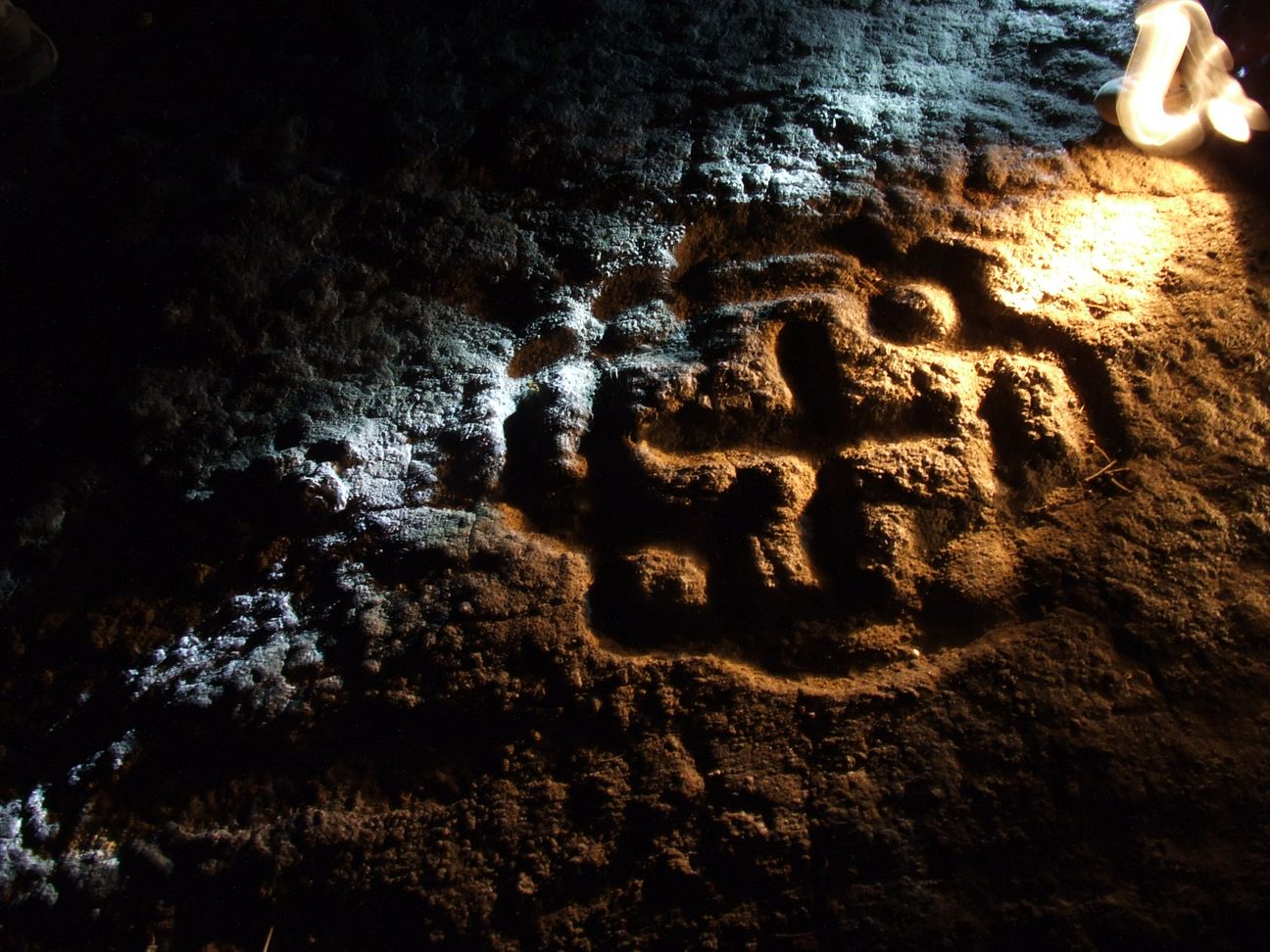 Fotografia de noche de un grabado de una cruz de la Plazoleta de la Isla El Muerto, Nicaragua